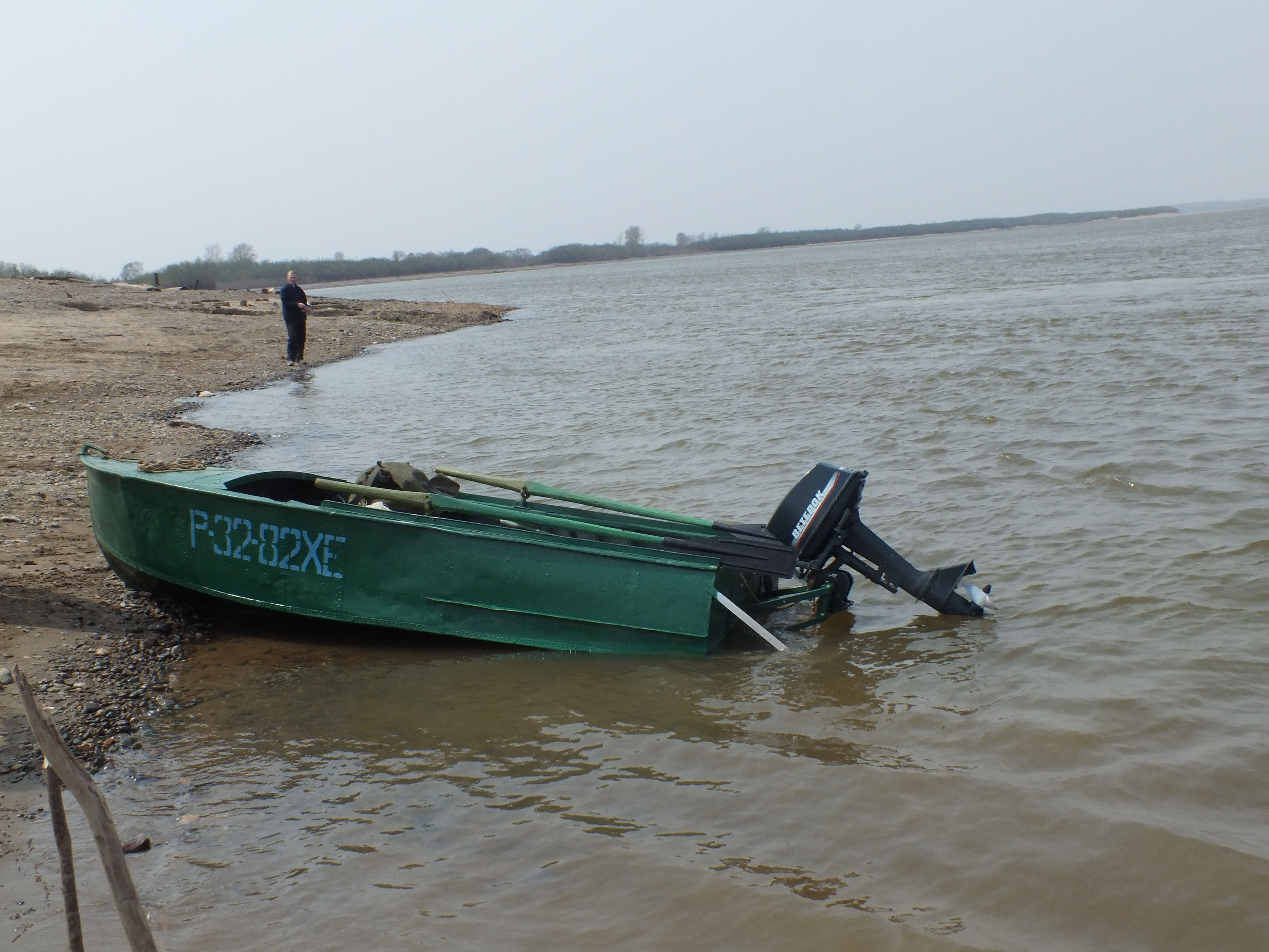 Outboard motors